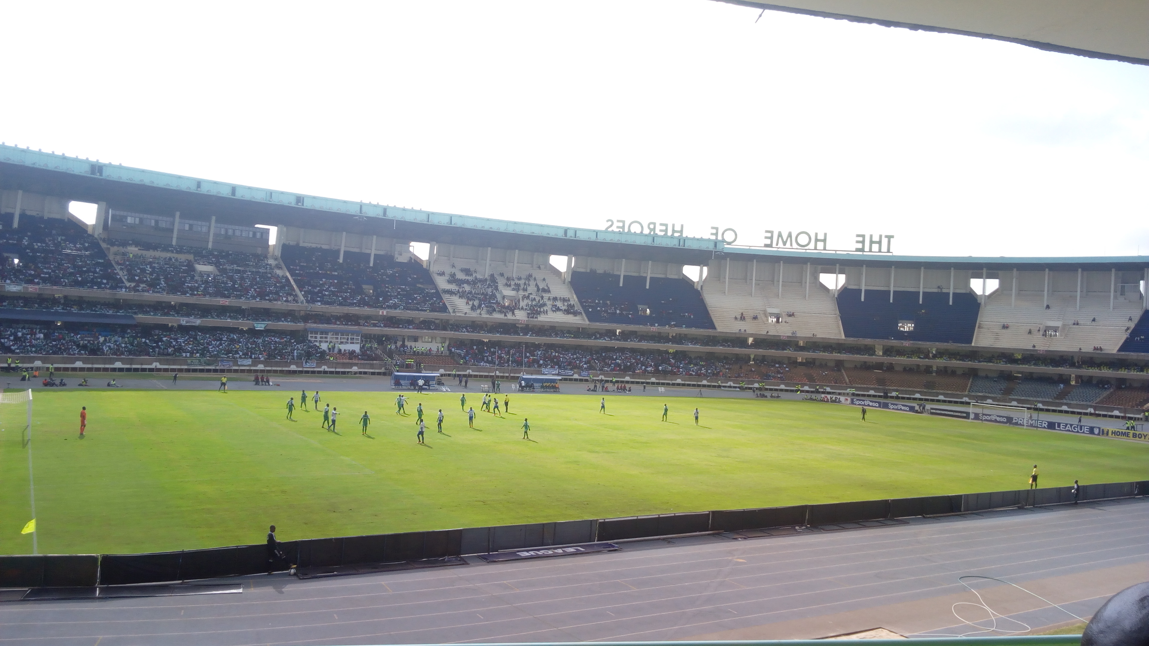 Inside the Kasarani Stadium-Kenya's Largest Stadium and host of the 2017 World U18 Championships in Athletics.